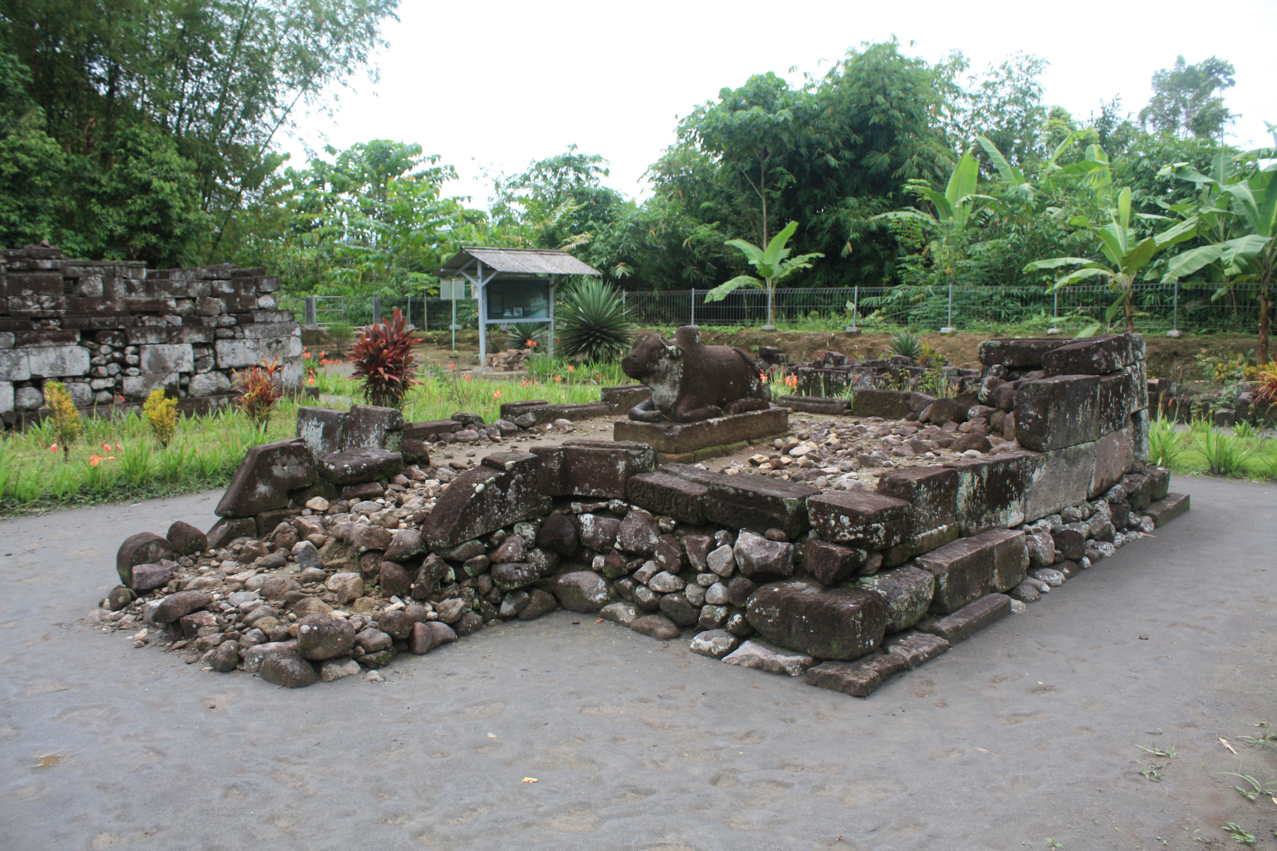 The statue of Nandi bull, the vahana of Shiva, in central Perwara or smaller complementary temple. There are three perwara temples in front of Gunung Wukir (Canggal) main temple. Canggal hamlet, Kadiluwih village, Salam, Magelang Regency, Central Java, Indonesia.